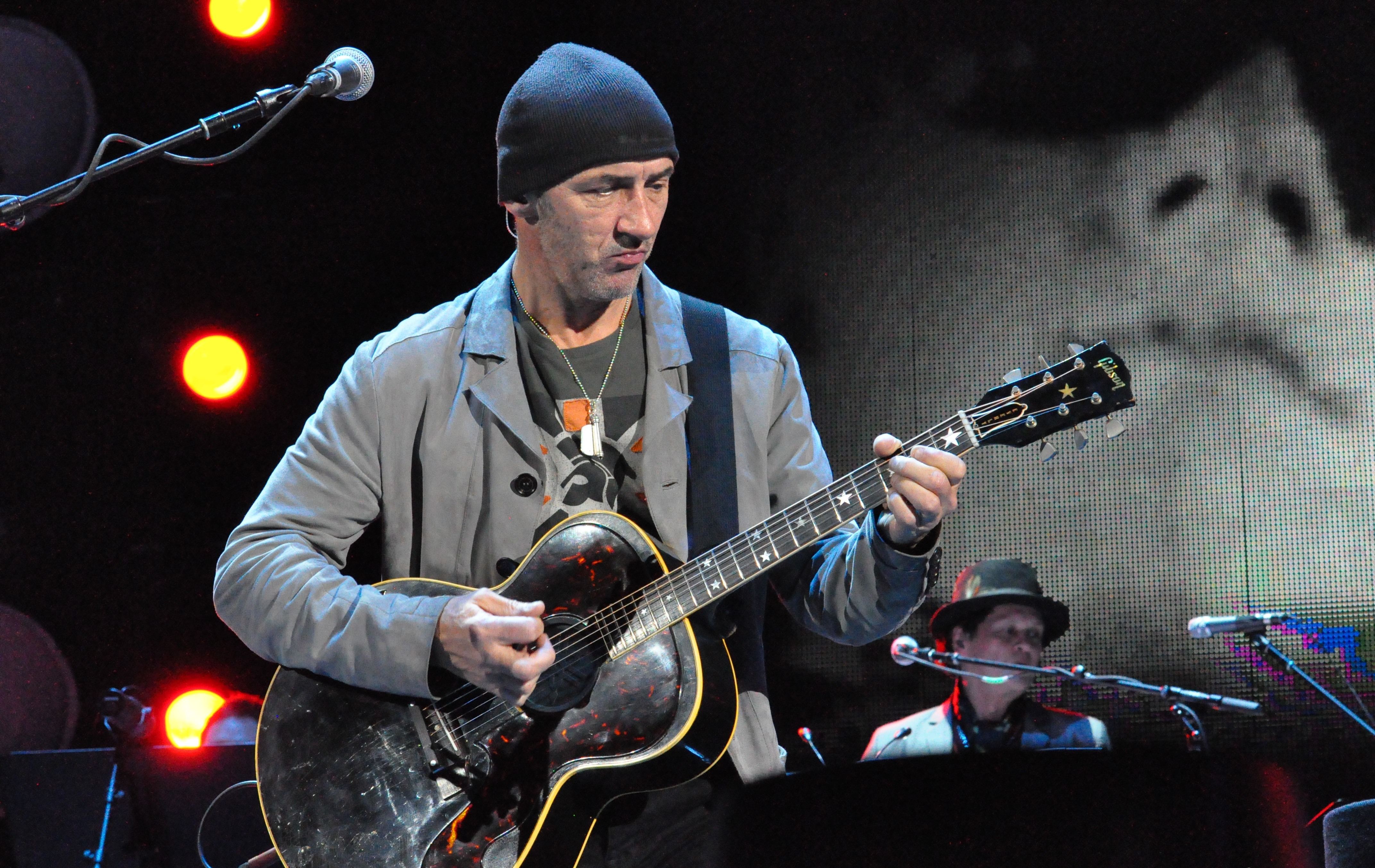 The Who.DSC_0100- 11.27.2012